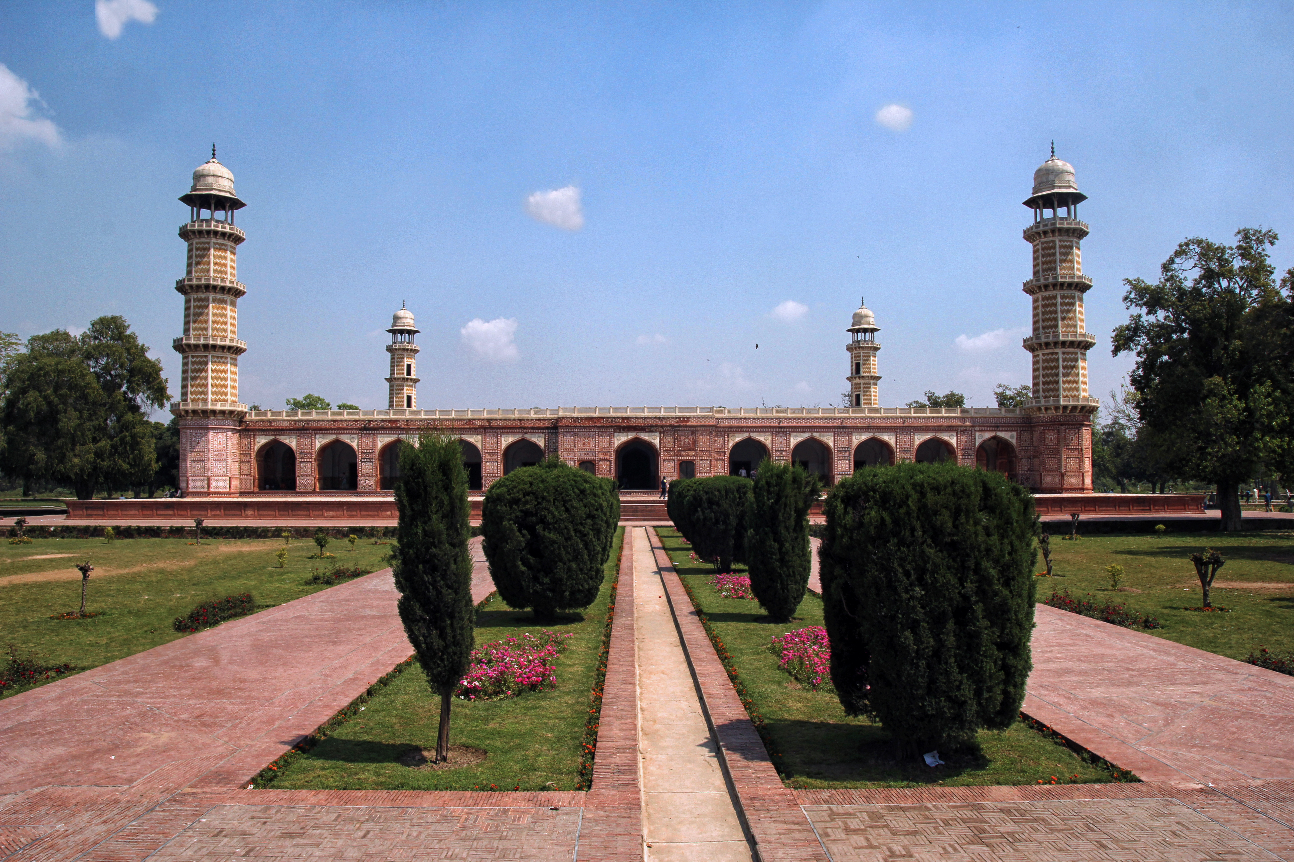 Jahangir’s Tomb and compound This is a photo of a monument in Pakistan identified as the PB-64